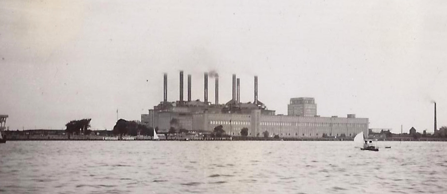 Berlin 1929 - Power station Klingenberg